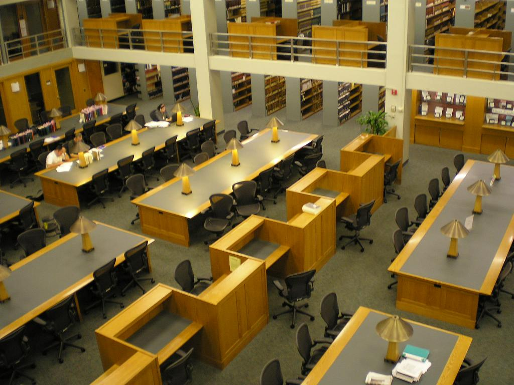 Only in summer: an empty Fordham Law Library, Lincoln Center, NYC